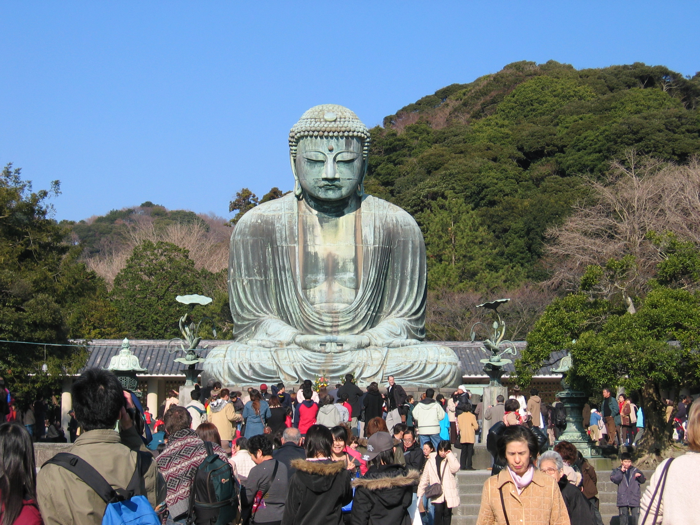 Kamakura, buddha statue